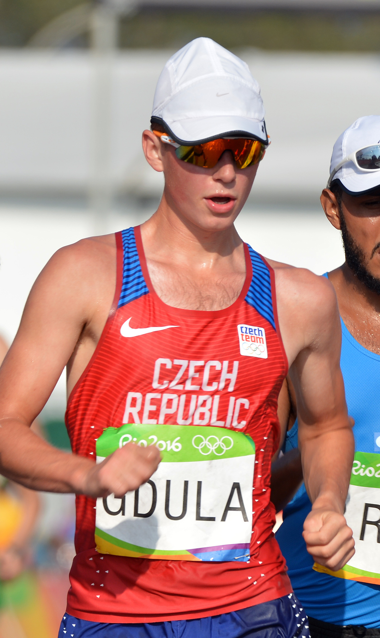 Lukáš Gdula in the men's 50-kilometer race walk Aug. 19 at the Rio Olympic Games in Rio de Janeiro. U.S. Army photo by Tim Hipps, IMCOM Public Affairs #SoldierOlympians #ArmyOlympians #ArmyTeam #GoArmy #ArmyStrong #TeamUSA #RoadToRio #Olympics